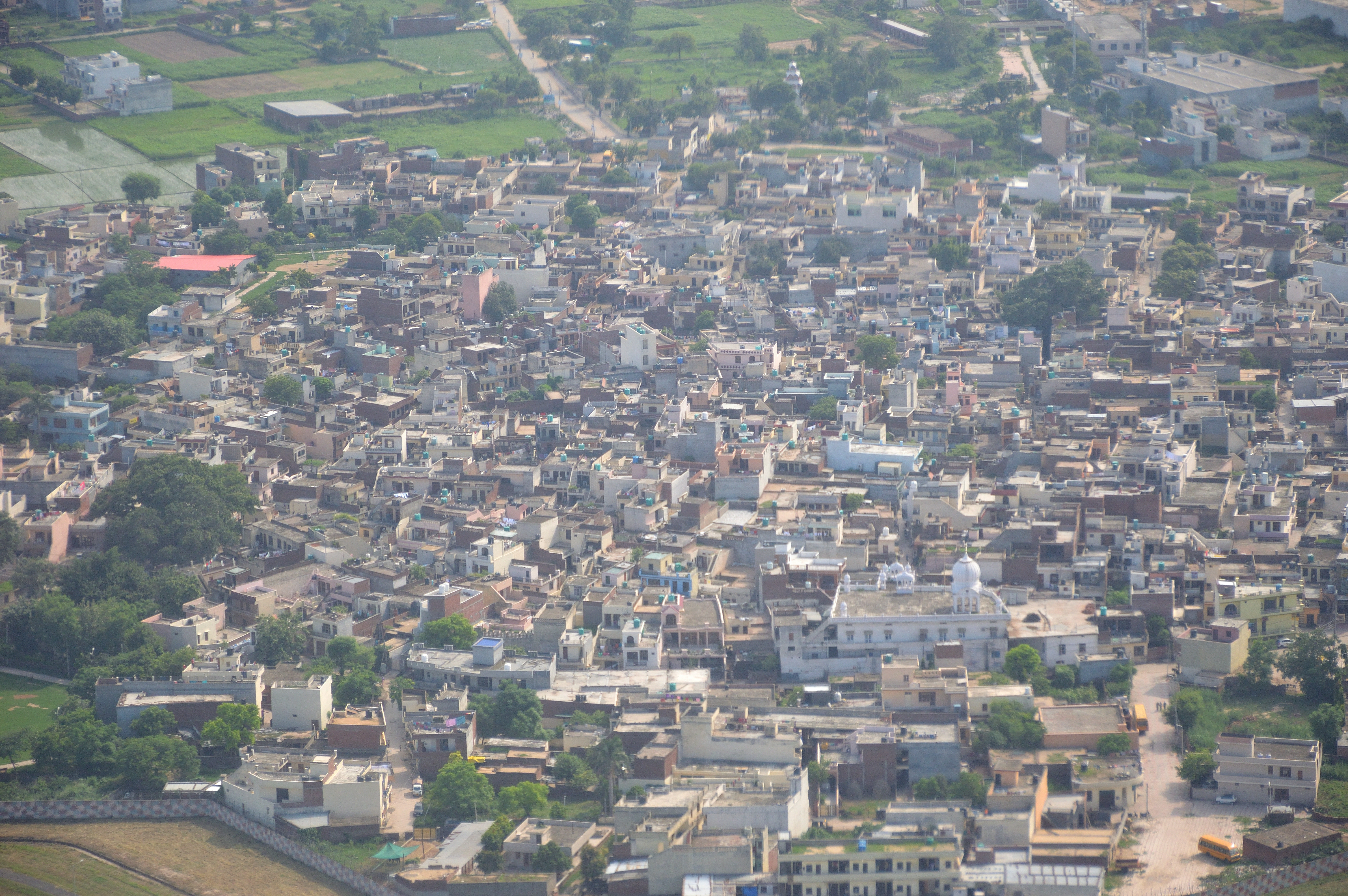 This photograph was taken in Punjab.